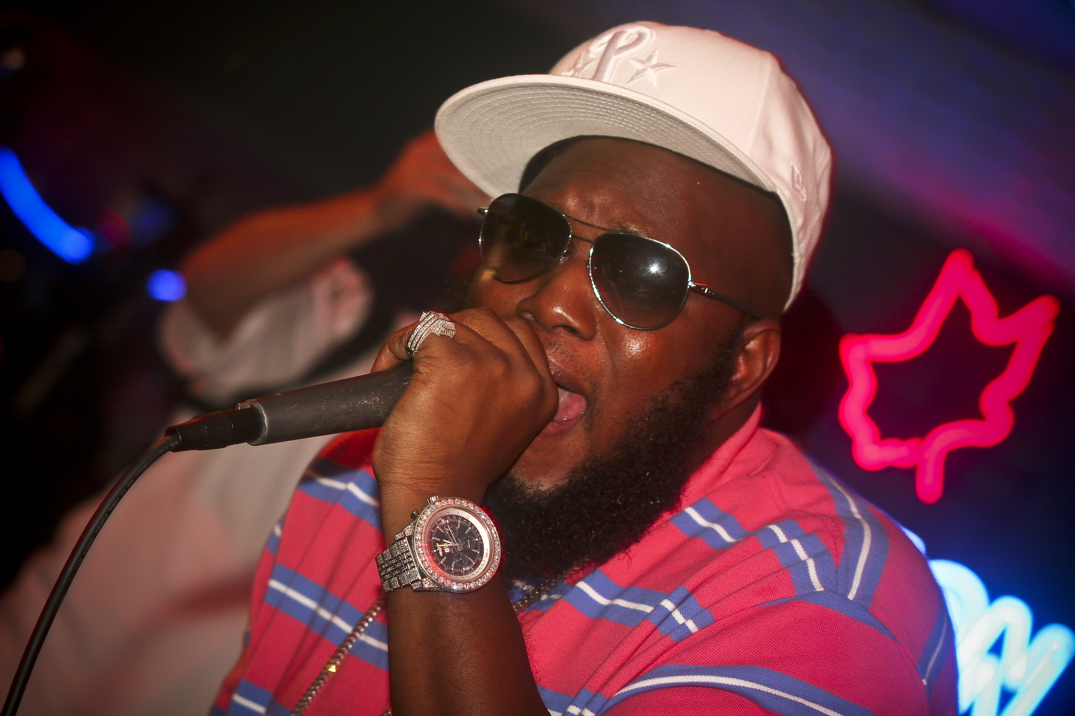 Freeway, an American rapper performing in Wilmington, Delaware.